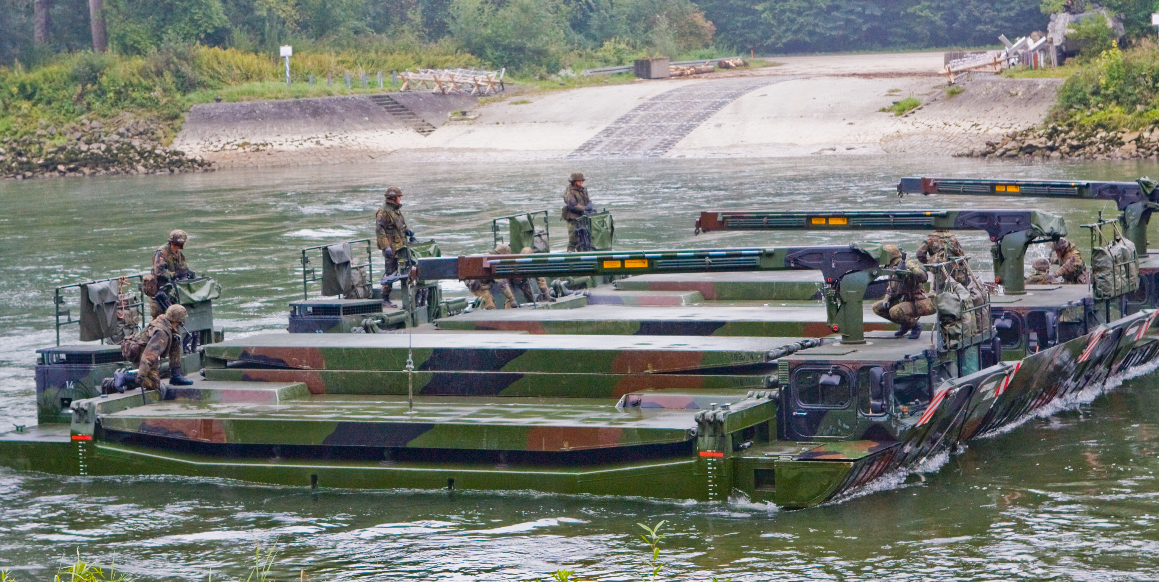 M3G in closed coupling configuration